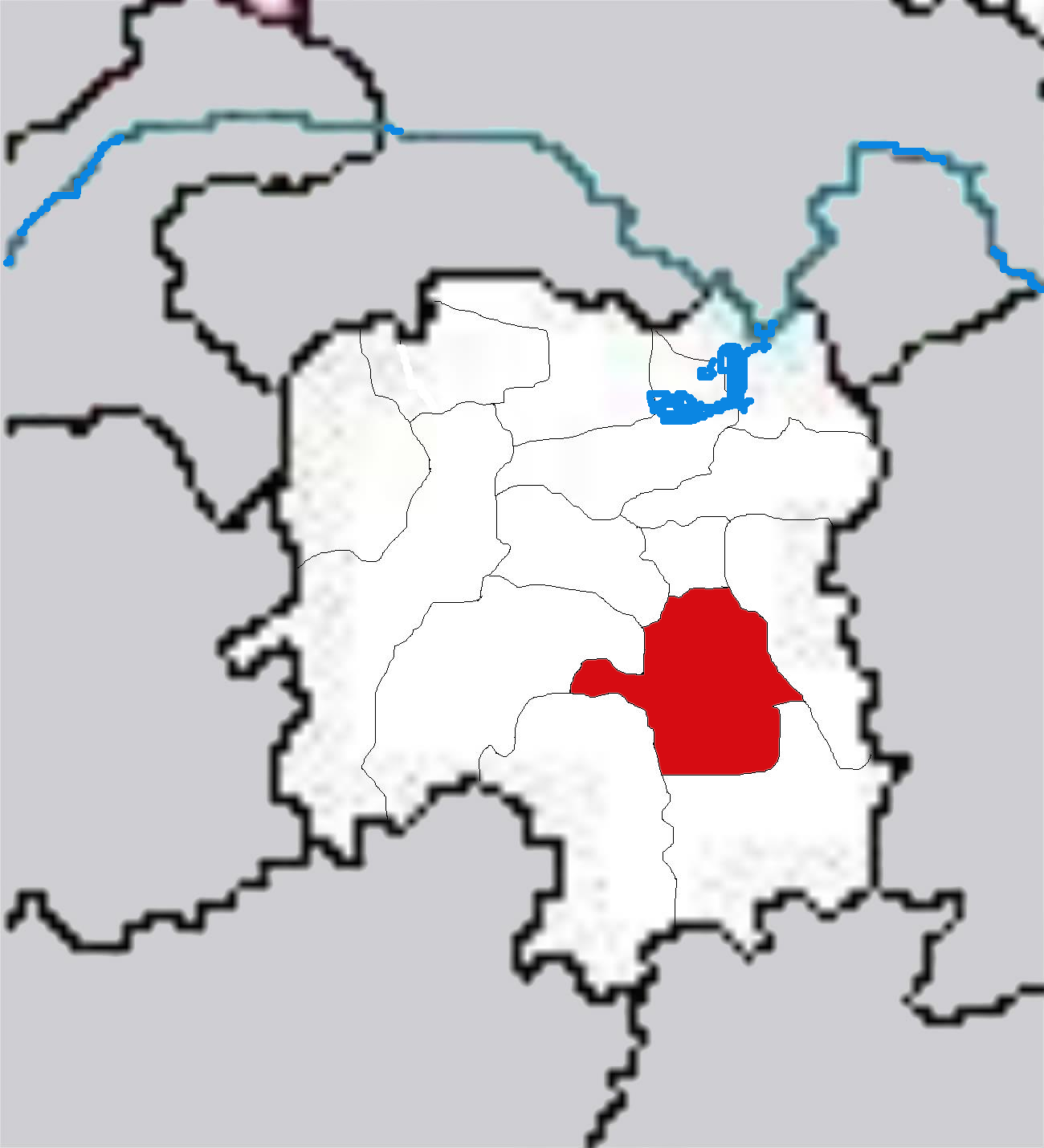 Maps of Hunan Province of China